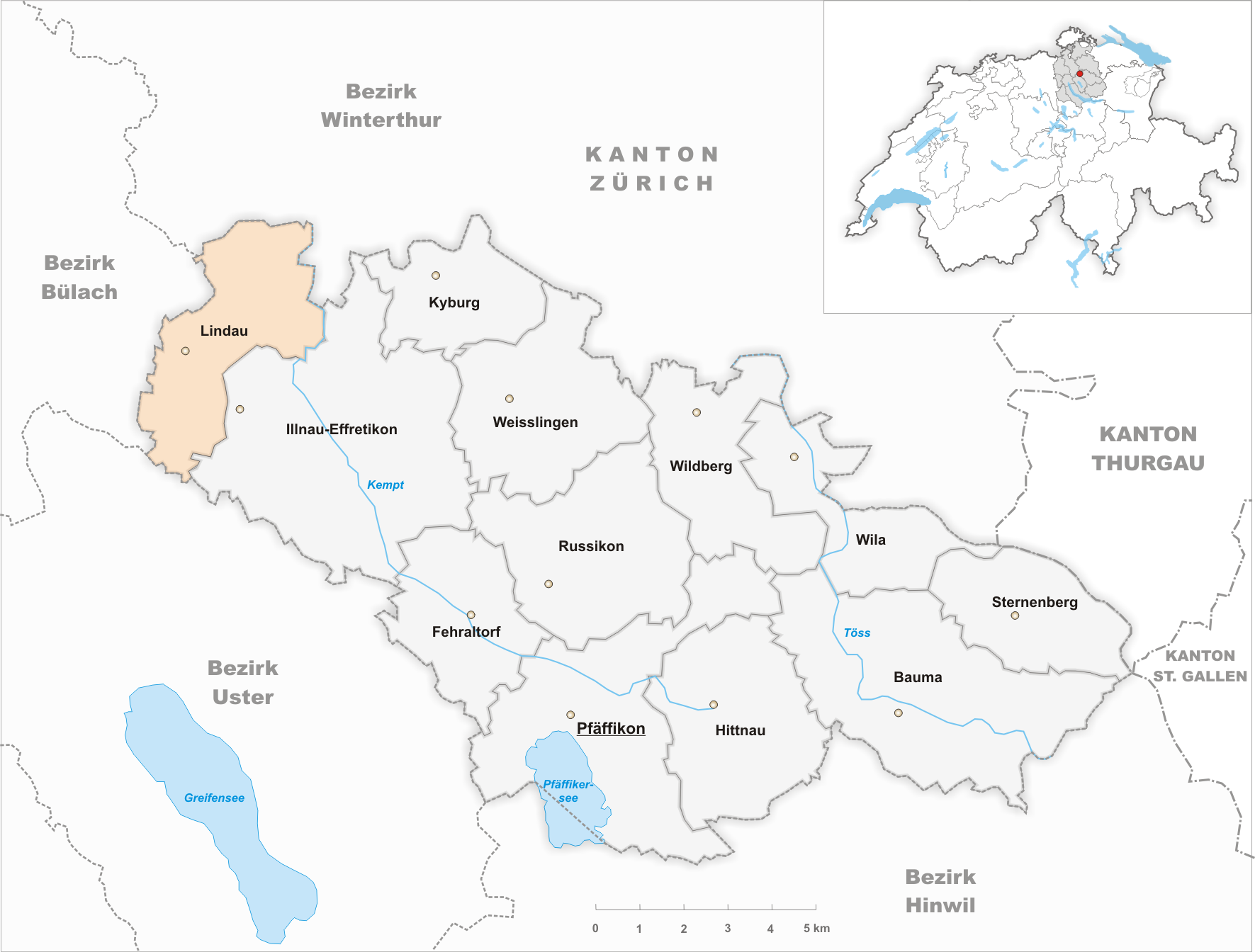 Municipality Lindau